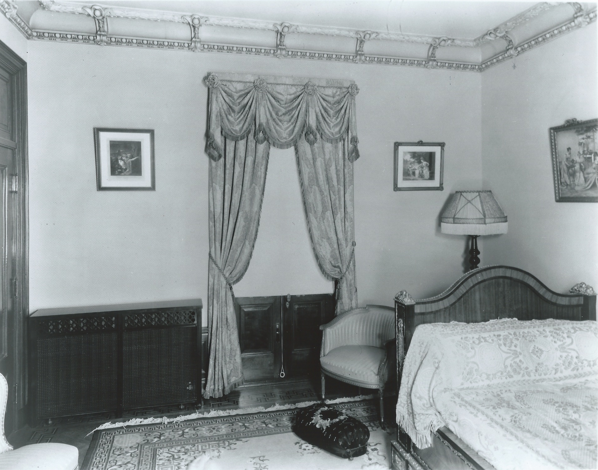 North-East Bedroom, Marius Dufresne House (Château Dufresne), 4040 Sherbrooke Street East, Montreal, Quebec, Canada.